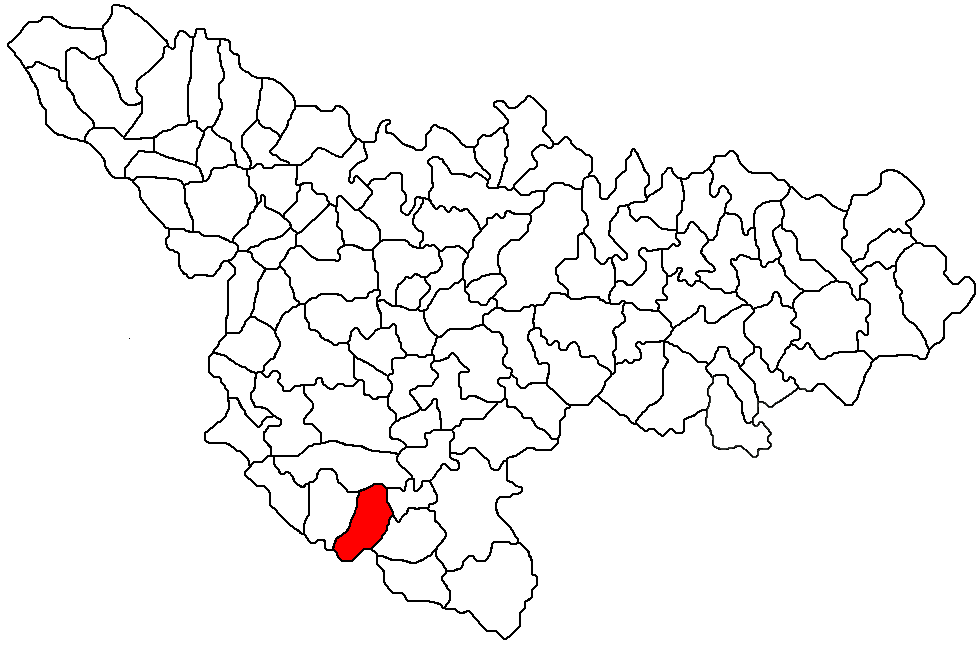 Banloc jud Timis.png, a commune of the Timis judet, Banat, Romania